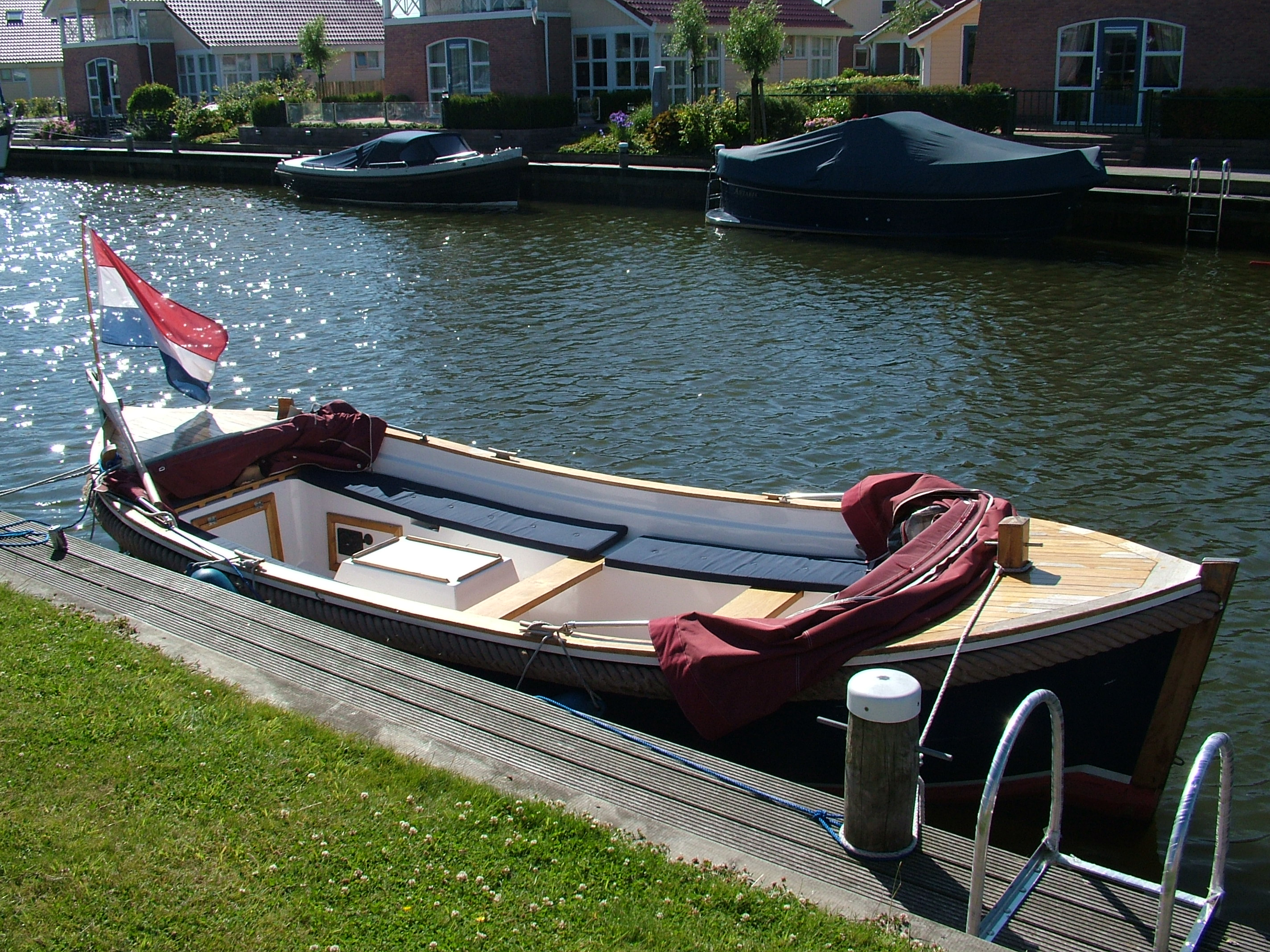 Sloep - dutch daycruiser. Photographed by: Per Palmkvist Knudsen